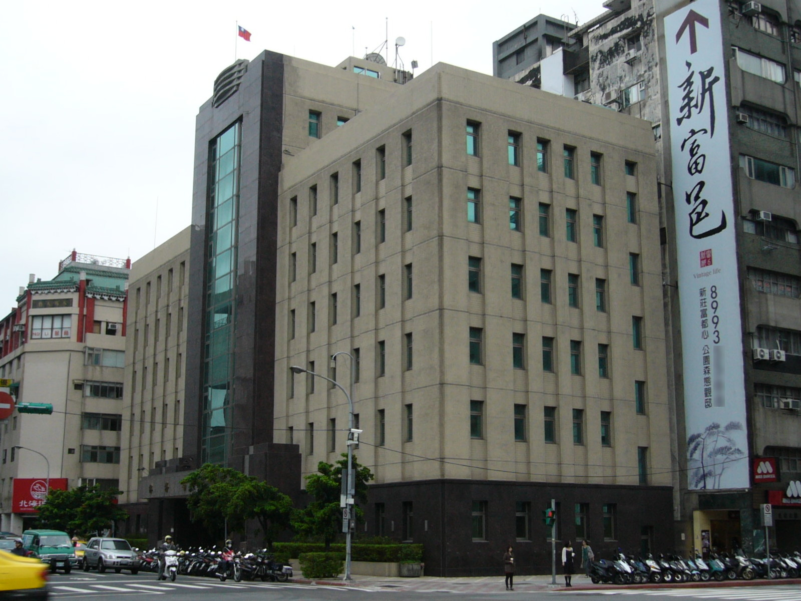 Forestry Bureau Building, Council of Agriculture, Executive Yuan.